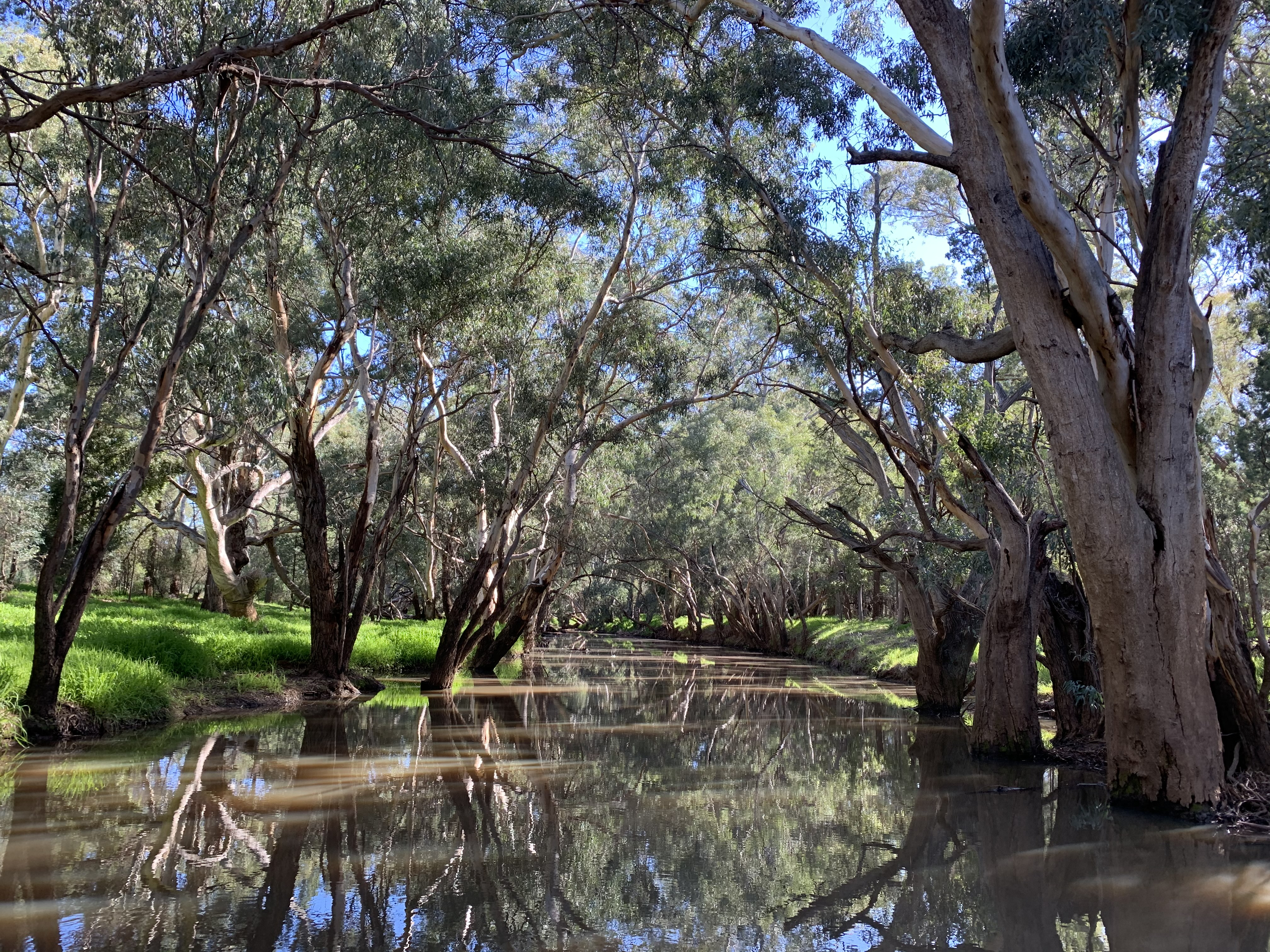 Mirrool Creek at Ardlethan, NSW. The Mirrool Creek is a part of the Murrumbidgee catchment within the Riverina region, NSW. Taken at the Mirrool Creek crossing on Chards Lane, Ardlethan, NSW.